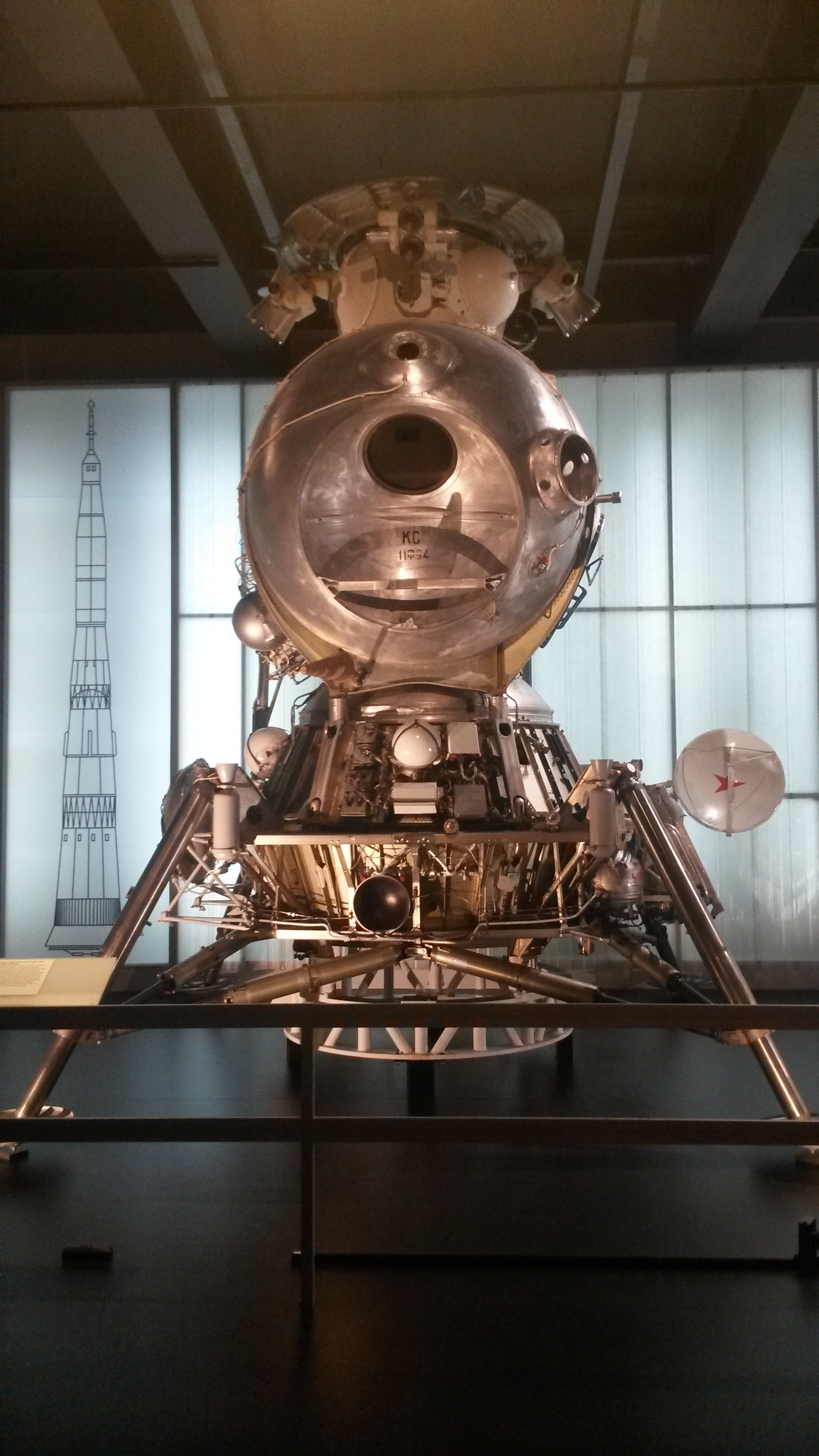 Soviet LK-3 engineering test unit (1968). Photographed at the Science Museum, London, March 2016.